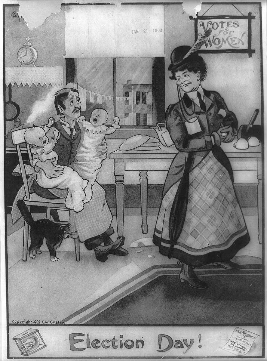 Election Day!: An editorial cartoon from 1909 depicting a woman going to vote on Election Day. It implies that giving women the vote will cause them to abandon their traditional work in the home. THE LIBRARY OF CONGRESS.